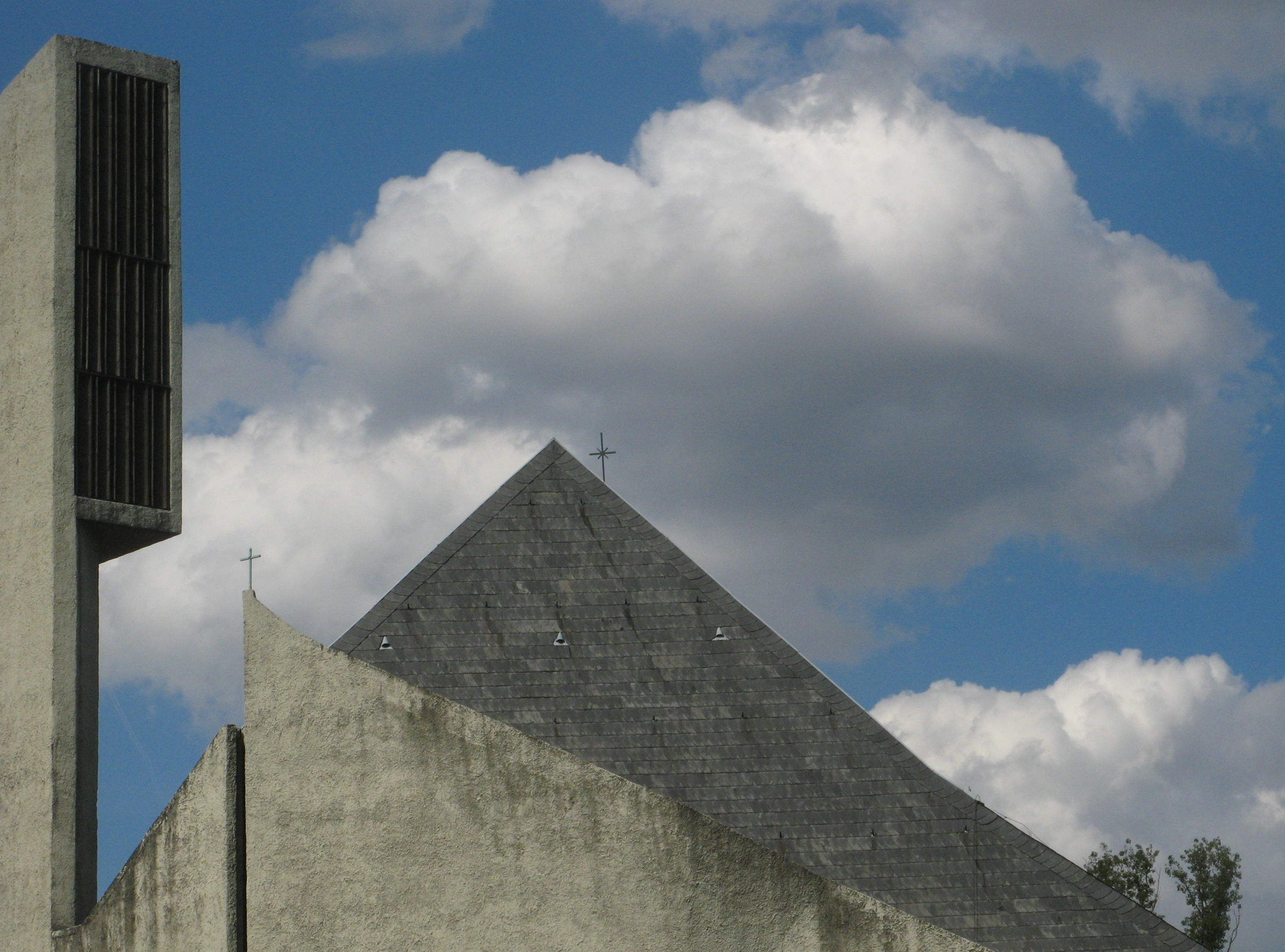 Catholic St. Norbert church in, Berlin, Germany